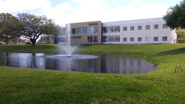 East branch moved in 2018 and reopened in conjunction with St Petersburg College. Updates include: a drive-thru hold pick-up window, extended hours, more community space and a career assistance deprtment upstairs.